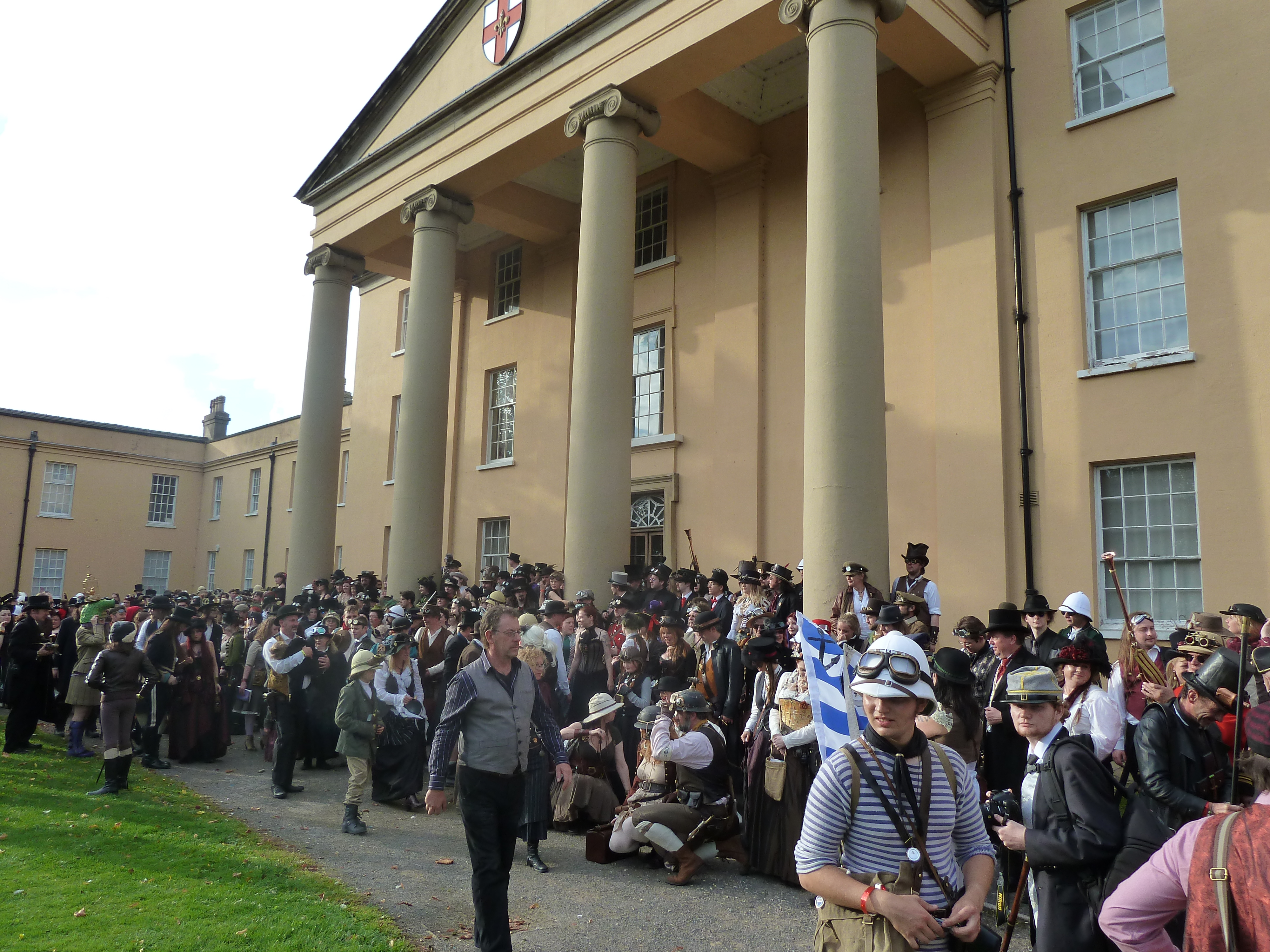 Steampunks at The Lawn